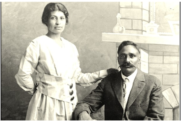 Valentina Alarez and Rullia Singh posing for their wedding photo in 1917. They were among the thousands of Punjabi-Mexican unions that sprouted up in the Southwest of the United States.